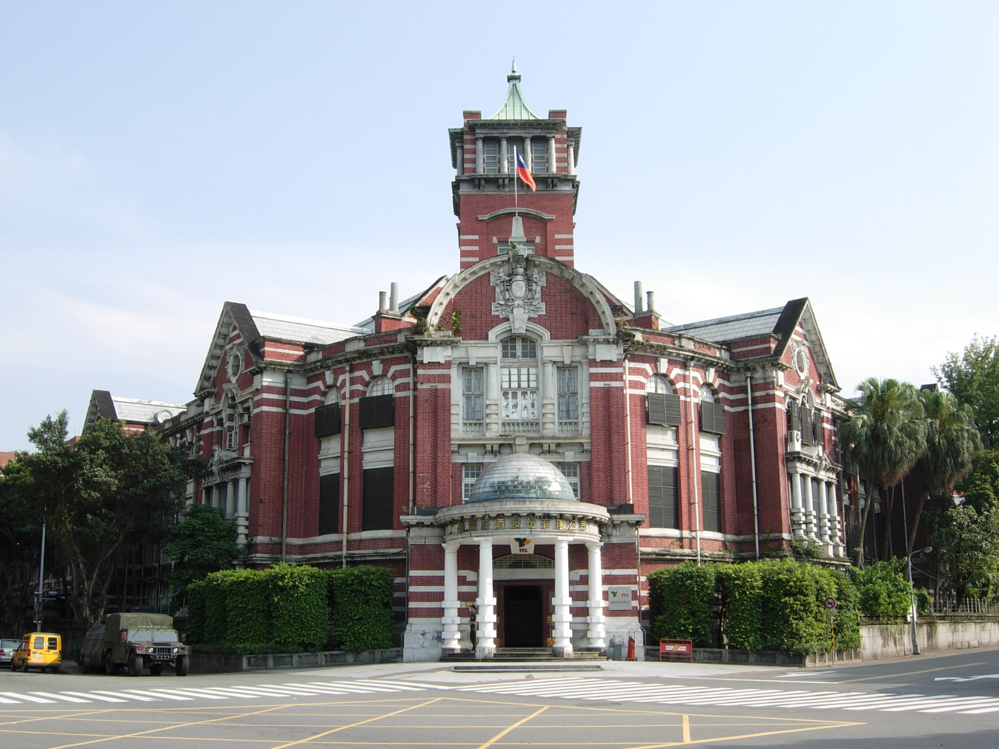 TTL Headquarters Building（Jhongjheng District, Taipei City, Taiwan.）